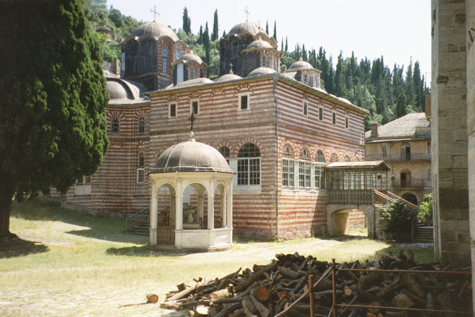 Building on the inner court of Zografou Monastery